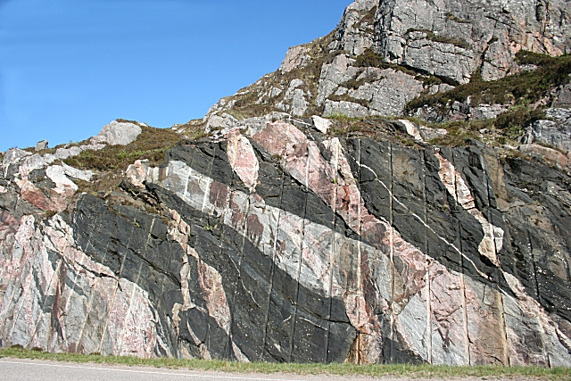 Road Cutting The rock faces exposed when the new A838 was built have become a mecca for geologists because they show the relationships of the different types of rock in the Lewisian. The oldest rock is the striped grey Badcallian gneiss, which is 2700 to 3000 million years old. Between 2400 and 2200 million years ago these grey rocks were intruded by dykes of black igneous rock, known as Scourie dykes. These rocks were later deformed and again intruded by coarse pink granites and pegmatites, themselves deformed during the Laxfordian event of 1900 to 1700 million years ago.